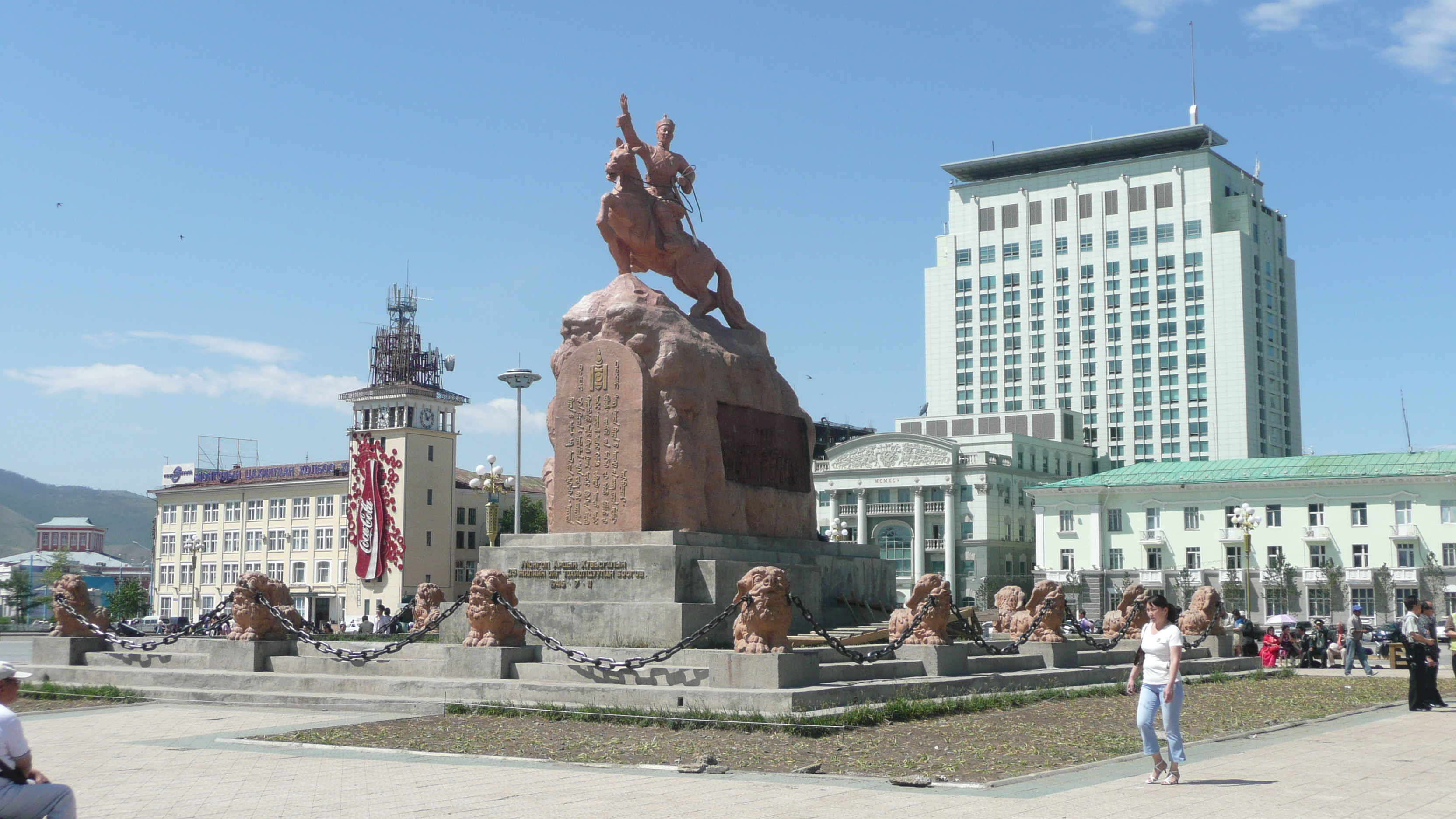 Sükhbaatar Square in Ulan Bator